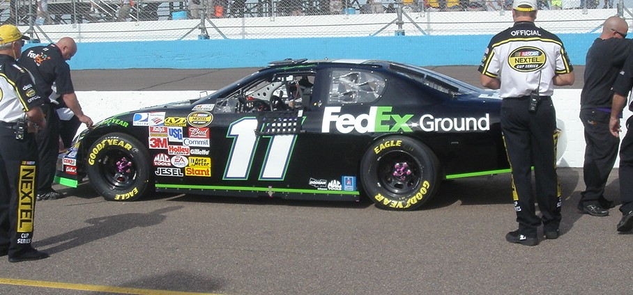 Denny Hamlin's #11 FedEx Chevy prior to the 11/12/06 Checker Auto 500 at the Phoenix Intl Raceway. I took this picture myself and release it to the public domain for any type of use.